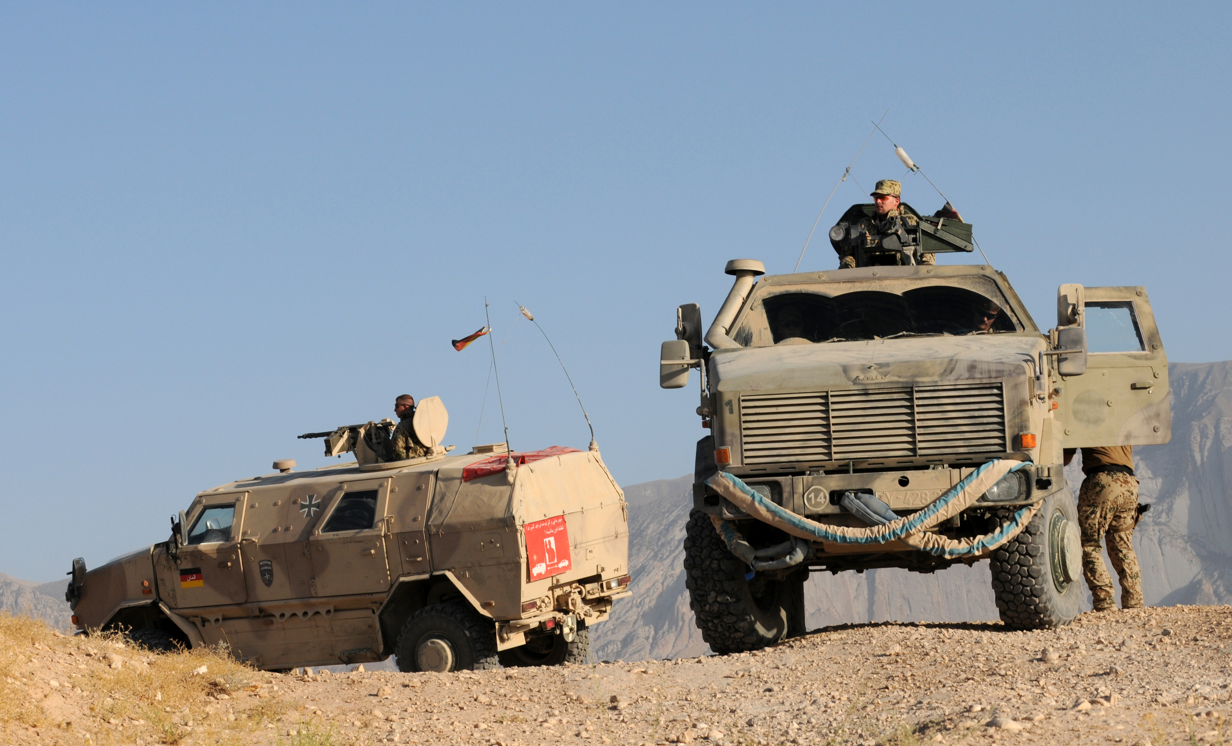 Mazar-e-Sharif, Afghanistan: German Army soldiers conduct surveillance above a hilltop, during a daily foot patrol in the region. The patrols ensure safety, security and foster good relations with the Afghans. Official Photo by Petty Officer First Class Ryan Tabios, ISAF HQ Public Affairs.